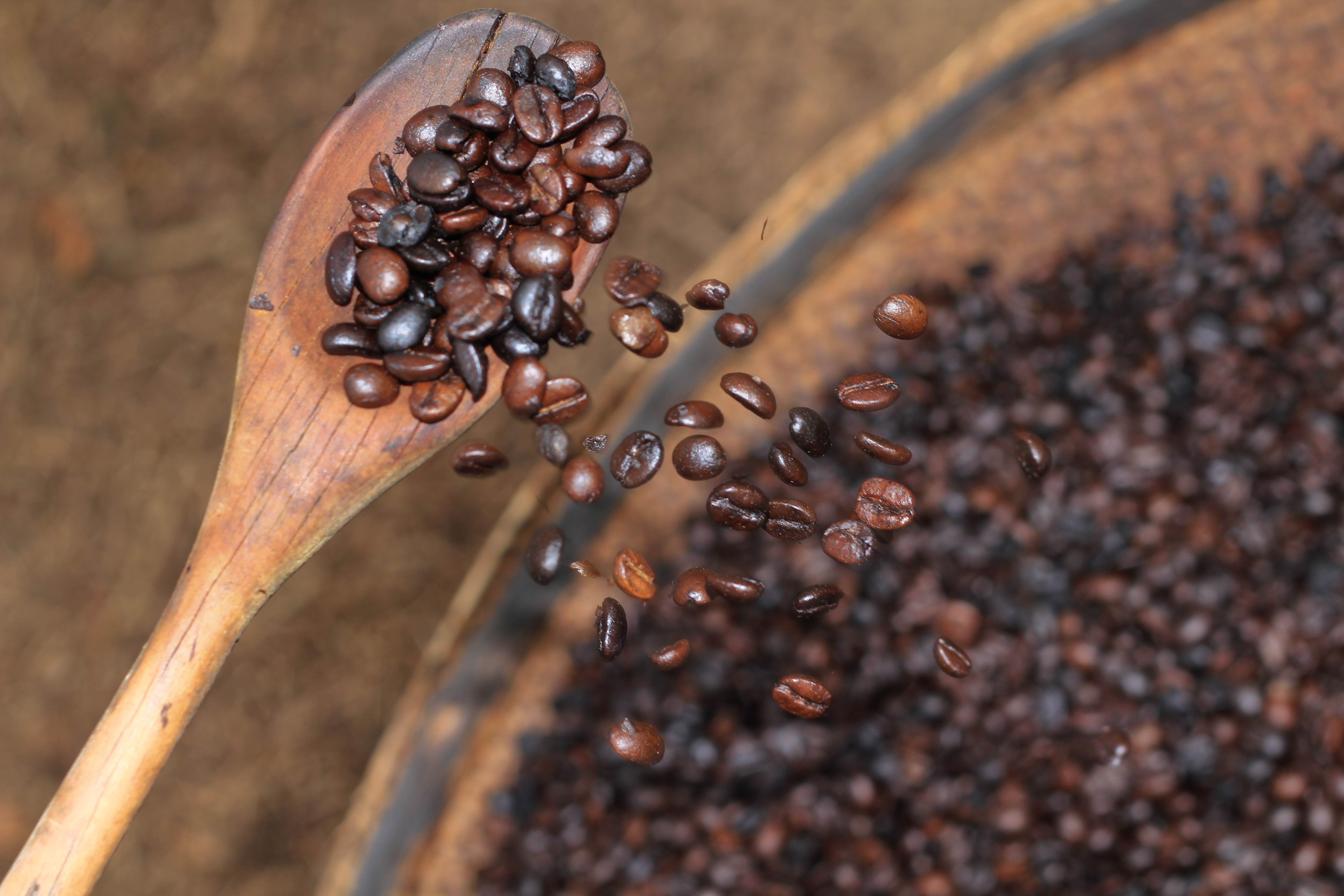 Arabic Coffe